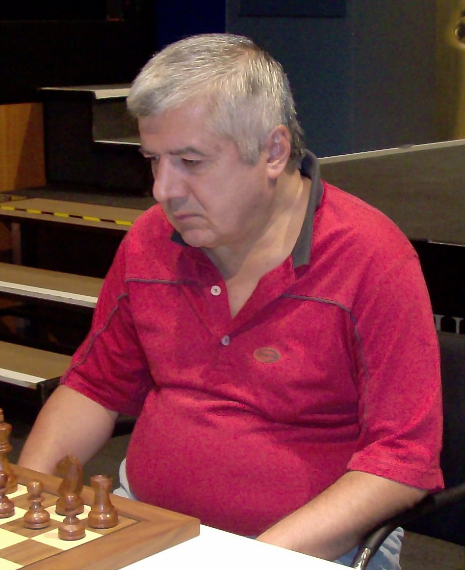 Rafael Vaganian, chess grandmaster from Armenia